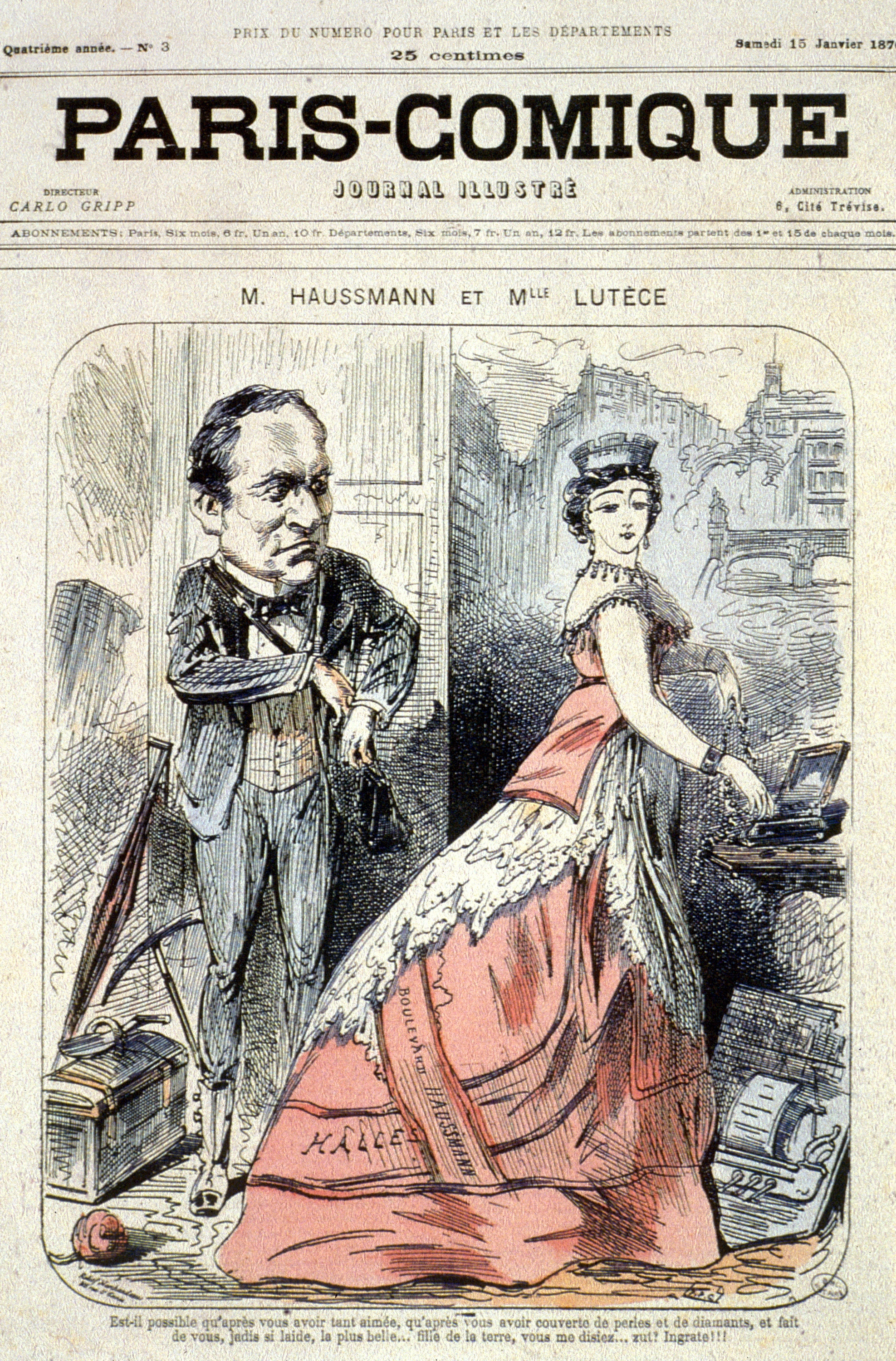 Originally appearing on the cover of the January 15th, 1870 issue of "Paris-Comique", this anonymous engraving was printed with the following caption: "Est-il possible qu'après vous avoir tant aimée, qu'après vous avoir coverte de perles et de diamants, et fait de vous, jadis si laide, la plus belle. . . fille de la terre, vous me disiez. . . zut? Ingrate!!" It was not unusual for 19th century artists to personify Paris as female. This artist presents Haussmann's Paris as his dependent yet ungrateful mistress. Haussmann, as well as many of his associates, felt unappreciated and wronged by the constant criticism they faced regarding their urban developmental projects in Paris.